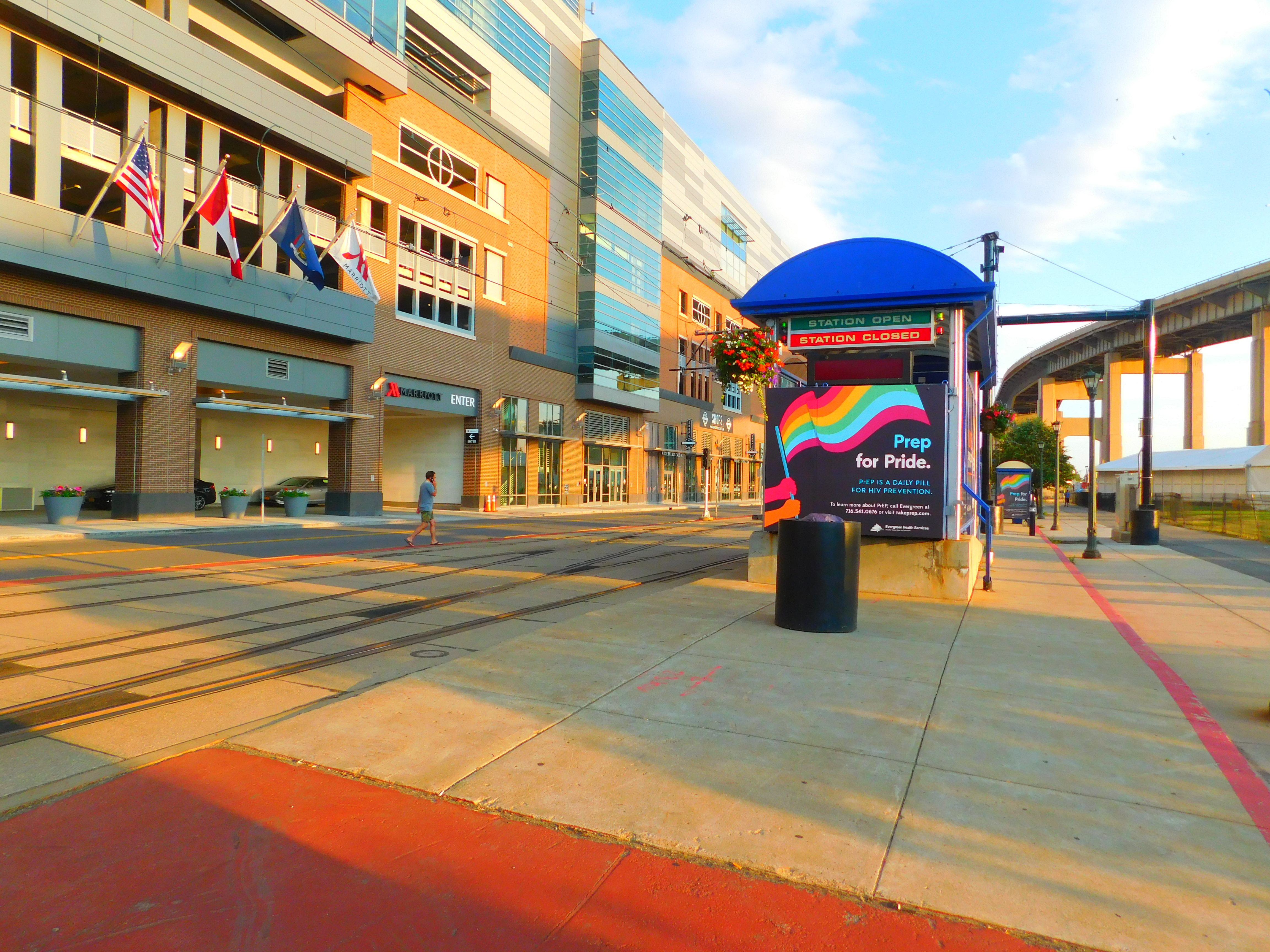 The Special Events station for the Buffalo Metro Rail in July 2016.